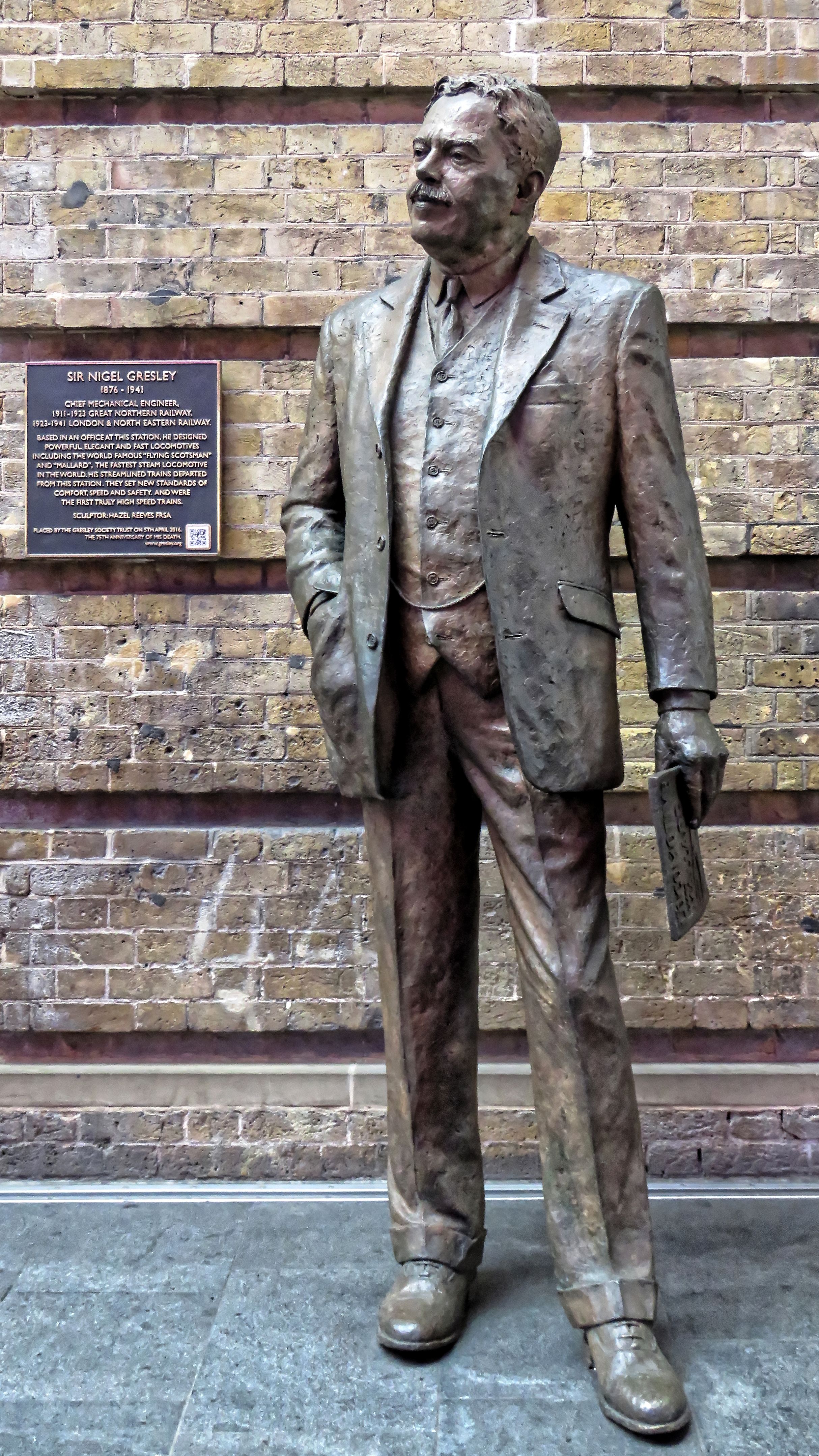 The statue of Sir Nigel Gresley against a Flemish bond brick wall at King's Cross mainline railway stations in Camden, London, England.Mobile device view: Wikimedia (as at 2019) makes it difficult to immediately view photo groups related to this image. To see its most relevant allied photos, click on King's Cross railway station, and this uploader's Sculpture photos. You can add a beta click-through 'categories' button to the very bottom of photo-pages you view by going to settings... three-bar icon top left.Desktop view: Wikimedia (as at 2019) makes it difficult to immediately view the helpful category links where you can find images related to this one in a variety of ways; for these go to the very bottom of the page.This image is one of a series of date and/or subject allied consecutive photographs kept in progression or location by file name number and/or time marking.Camera: Canon PowerShot SX60 HS.Software: file lens-corrected and optimized with DxO PhotoLab 2 Elite and Viewpoint 3, and further optimized with Adobe Photoshop CS2.